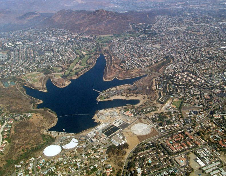 Lake Murray reservoir, aerial view looking north to Cowles mountain.